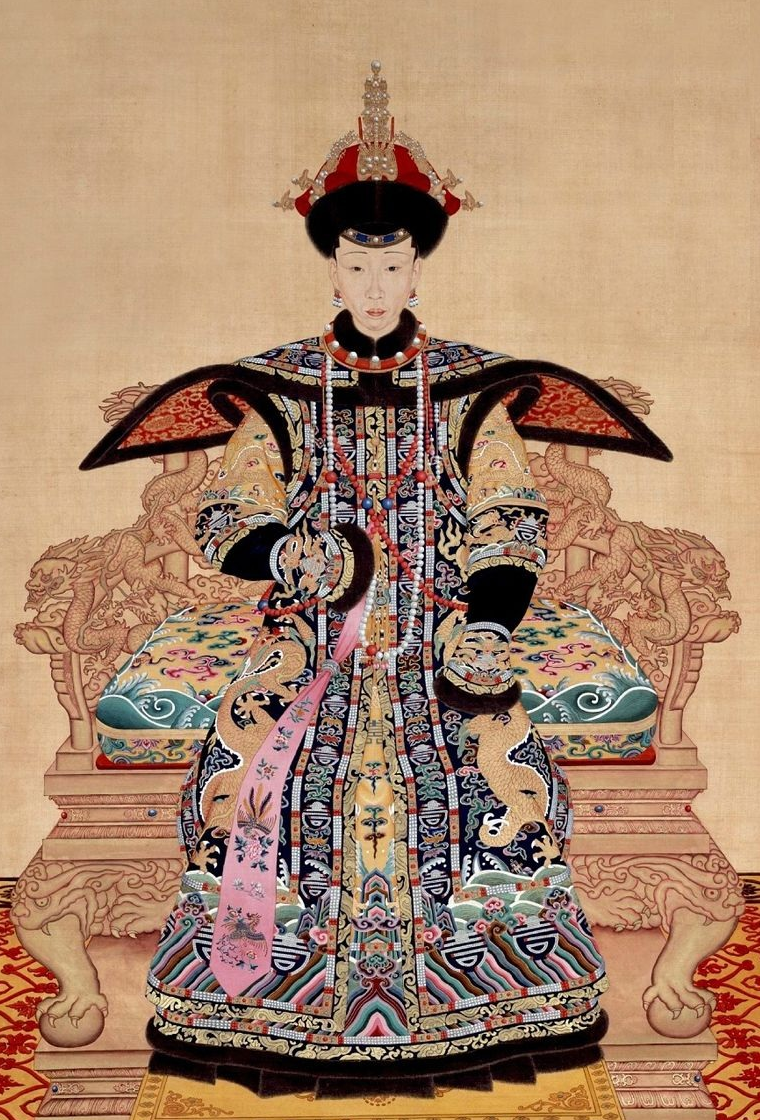 Empress Xiao Yi Chun